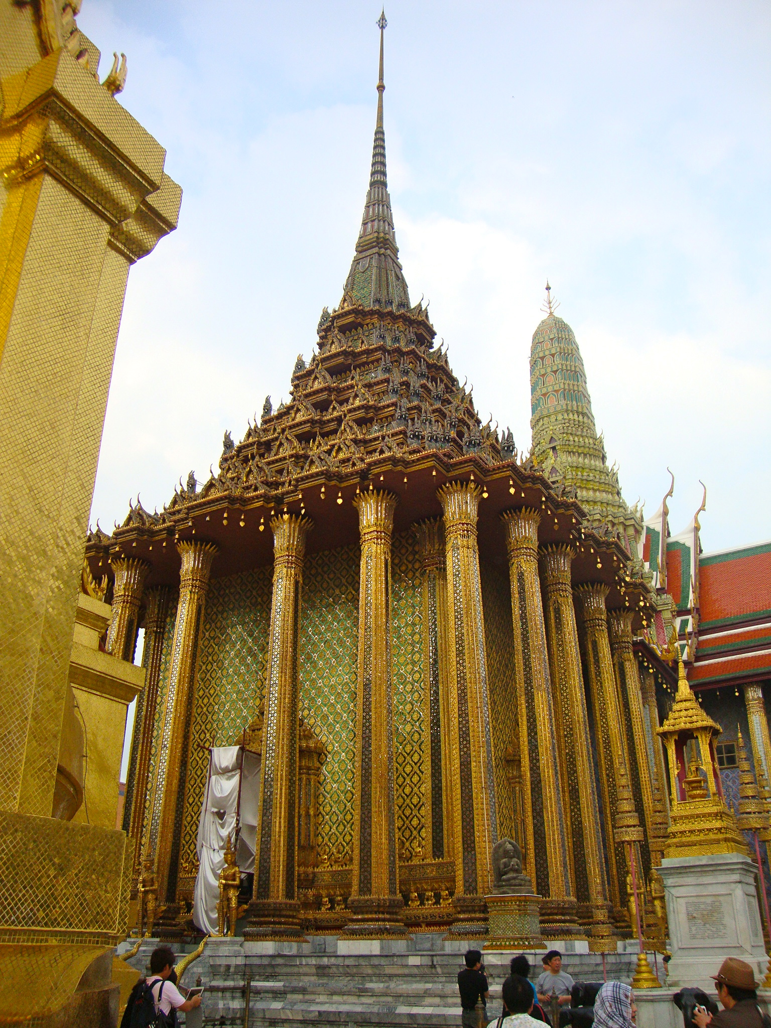 The Grand Palace